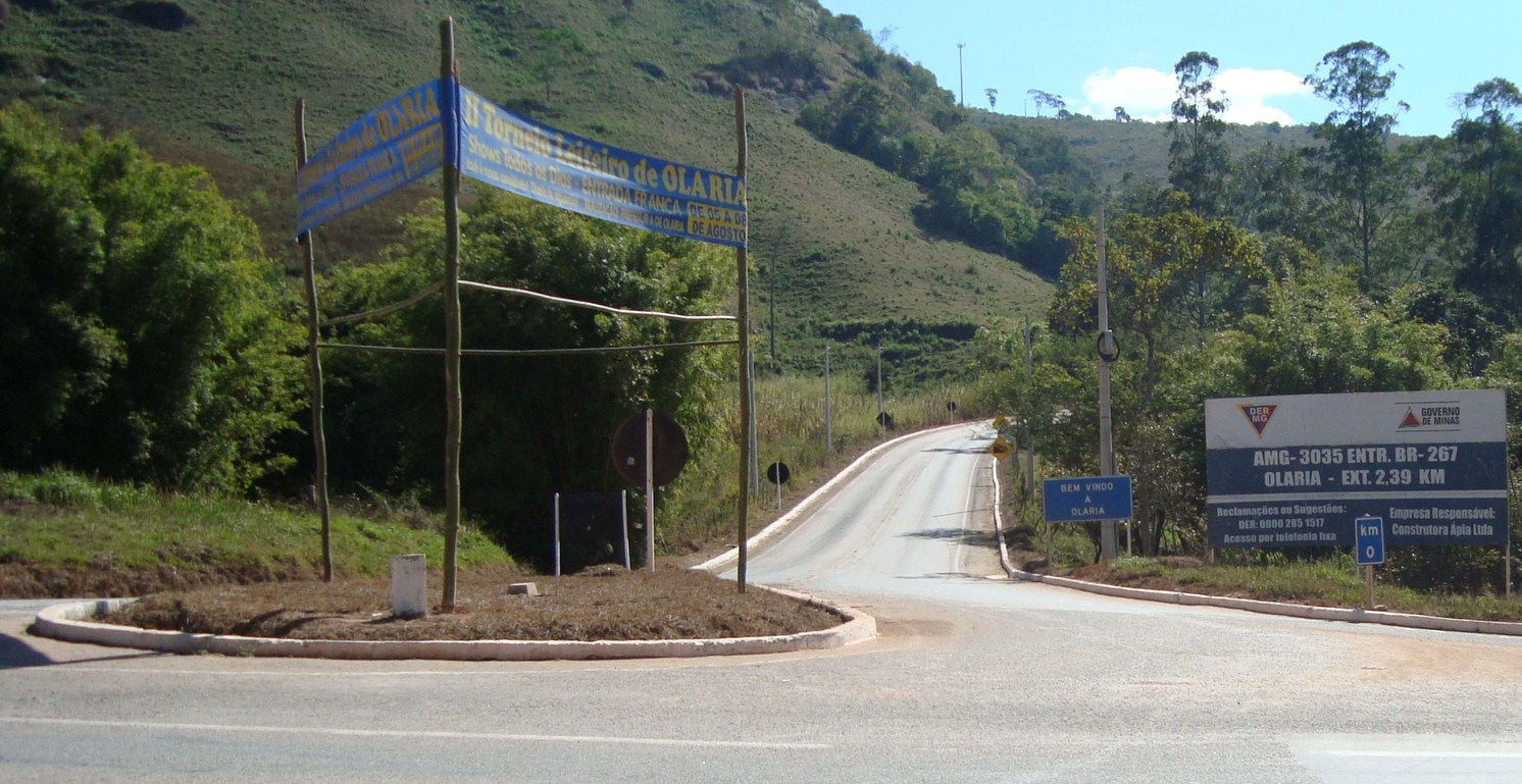 Road AMG-3035 in Olaria, Minas Gerais, Brazil